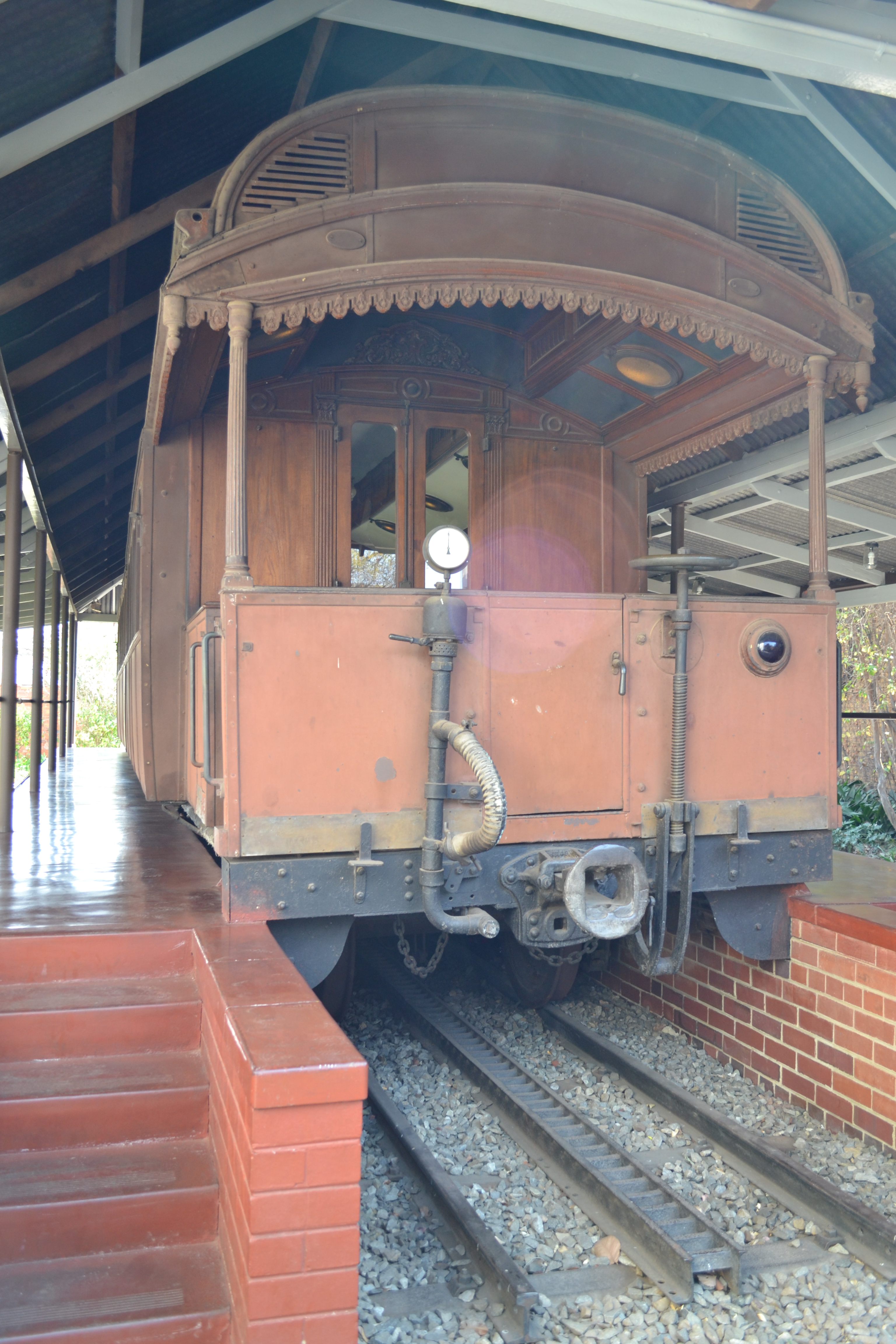 Kruger House Church Street Pretoria This media shows a South African Protected Site with SAHRA file reference 9/2/258/0010.